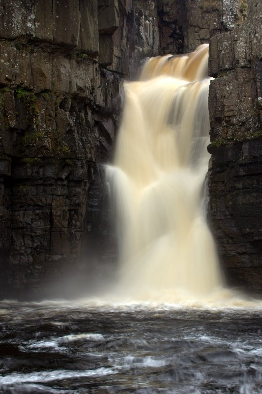 High Force waterfall, Teesdale.